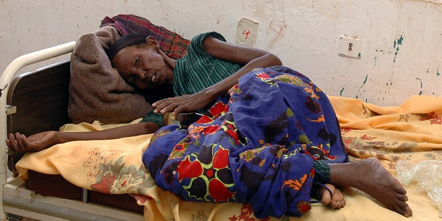 Raped Mother By Wayanes